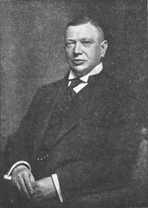 Portrait of Otakar Kukula (1867-1925), Czech surgeon, professor of medicine.